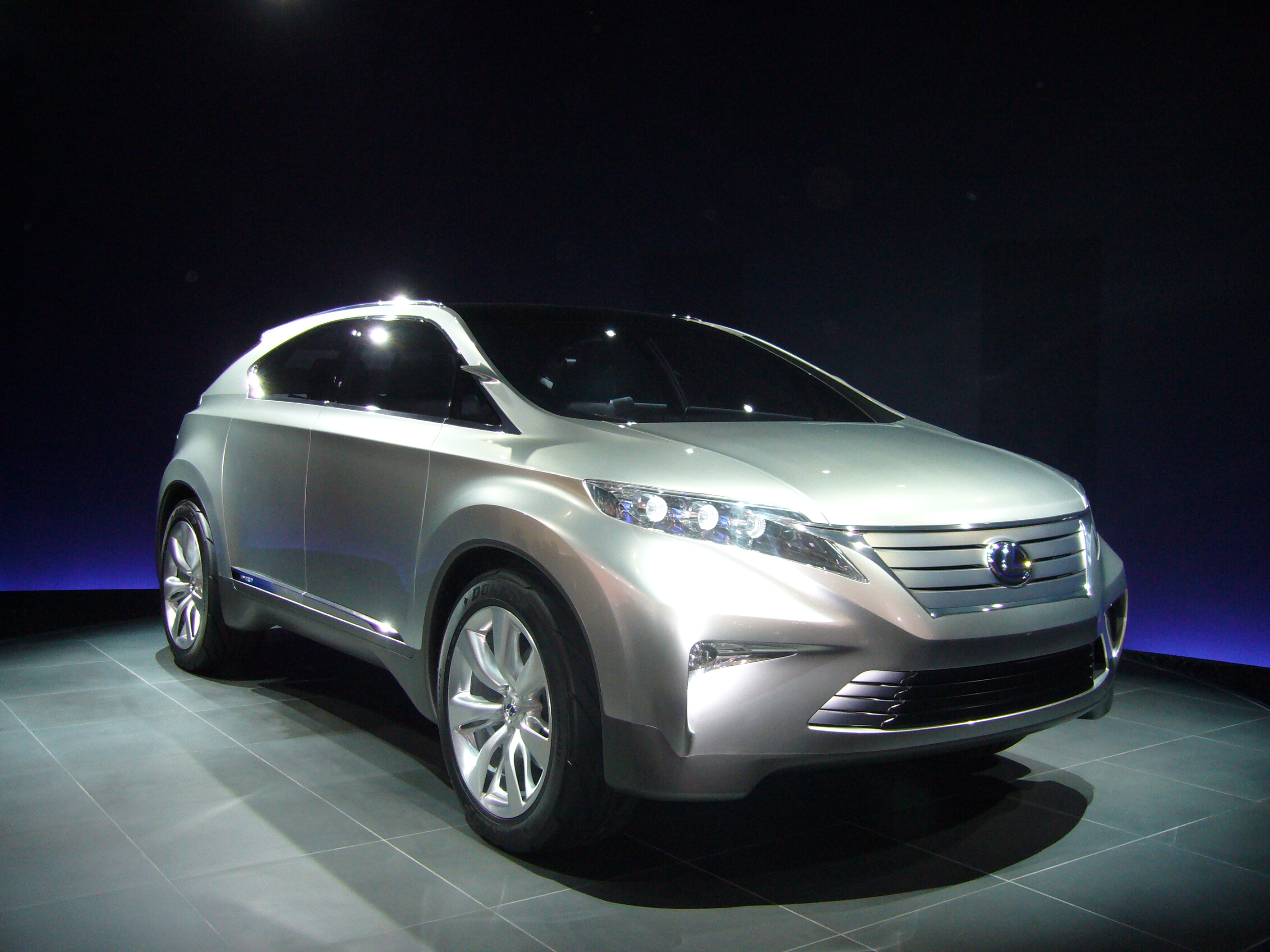 A picture of the Lexus LF-Xh concept car at the 2007 Tokyo Motor Show.